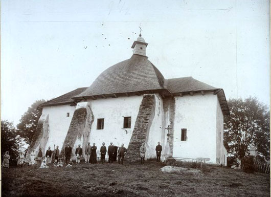 church in Uluch